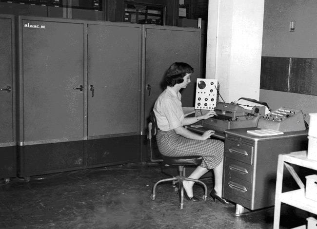 National Weather Records Center (NWRC) programmer Irma Lewis at the console of the ALWAC III computer in 1959. This early NWRC computer passed acceptance tests on July 1, 1955. It cost $85,000 and weighed 2,100 pounds (950 kg).